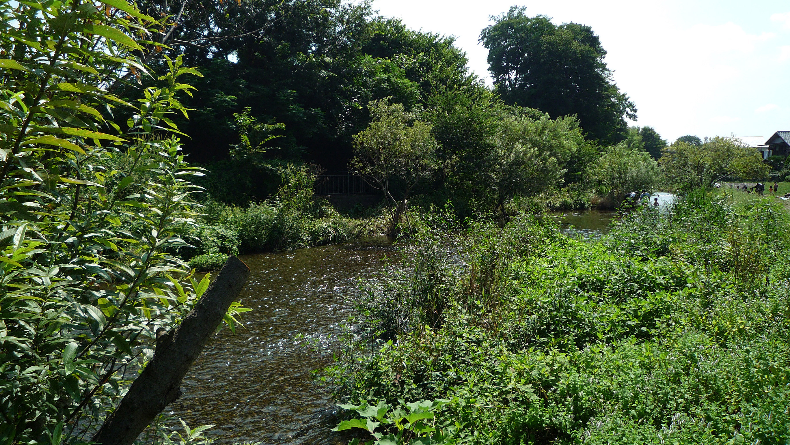 Ochiai River; Higashikurume, Tokyo.